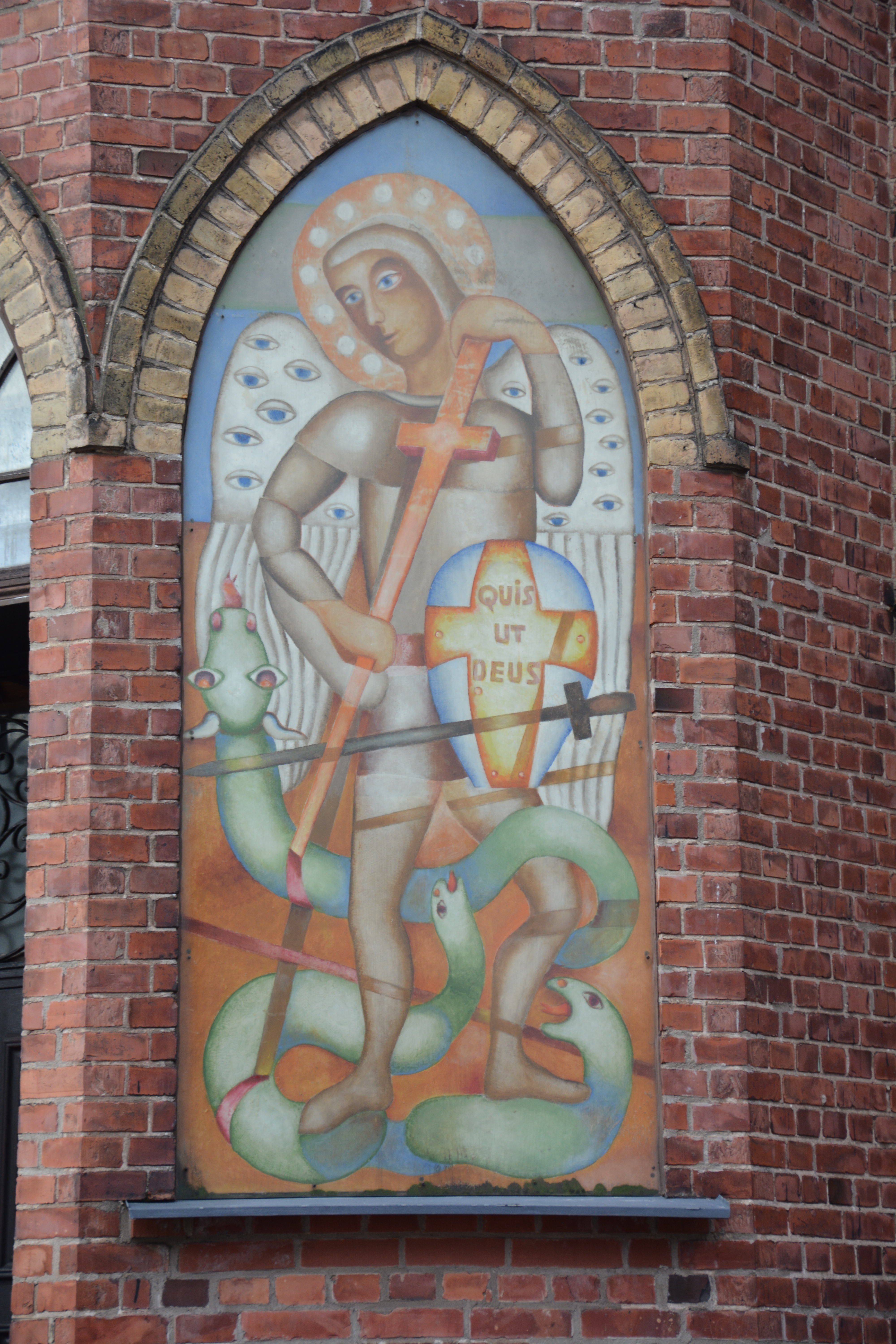 Målat fält på fasaden till Trefaldighetskyrkan i Halmstad., av Erik Olson